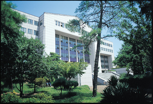 kwangwoon university